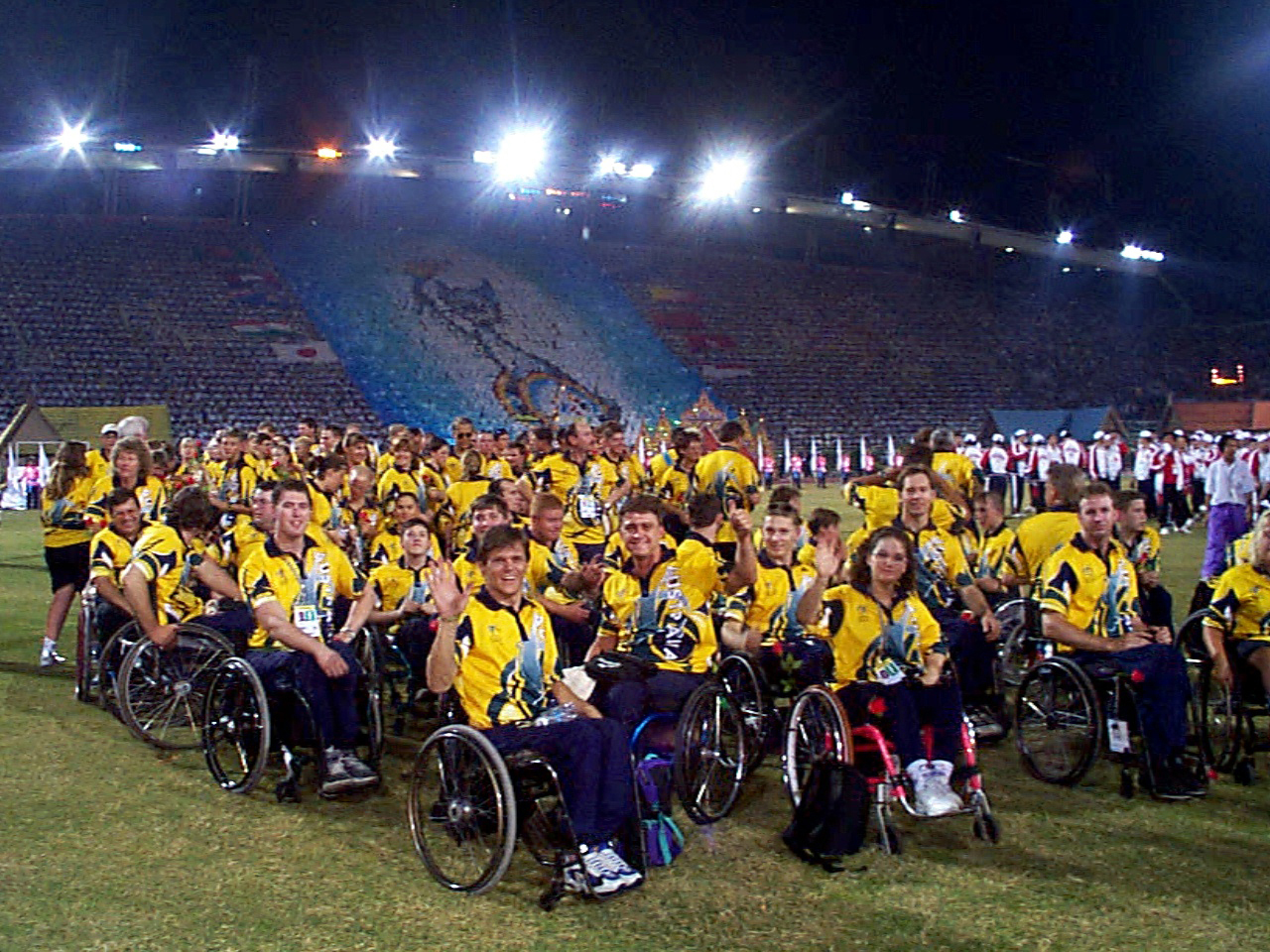 Bangkok FESPIC Opening Ceremony Australian Team Group